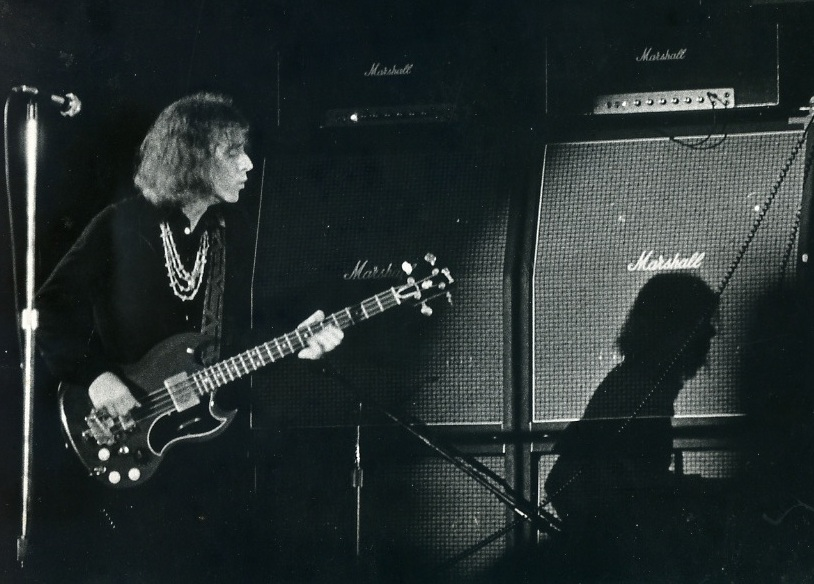 Jack Bruce playing with West, Bruce and Laing at the Hollywood Palladium